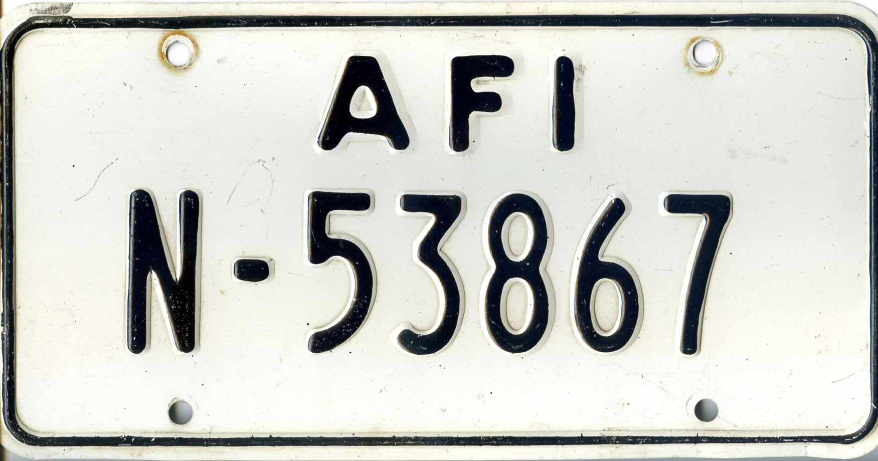 Italy, Vehicle registration plates of Italy. The license plate of Allied Forces Italy no more in use, this plate was in use in Naples (N).